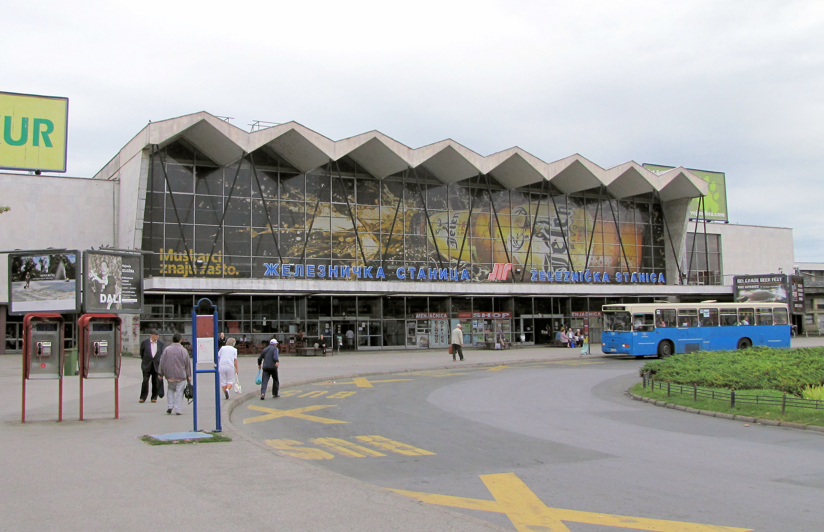 Main train station, Novi Sad, Serbia.